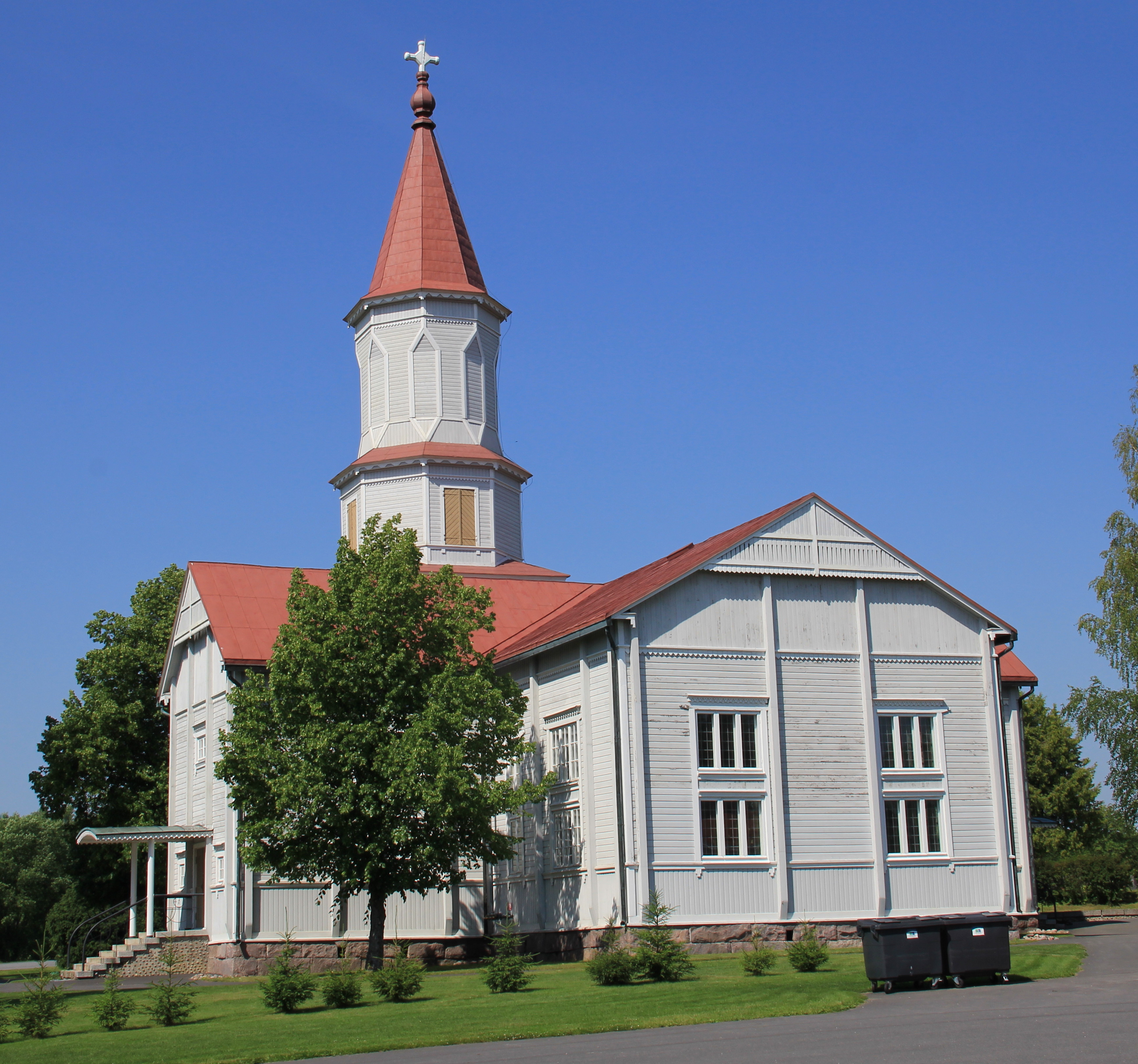 Mellilä church, Mellilä, Loimaa, Finland. Completed in 1825. - Seen from southwest.